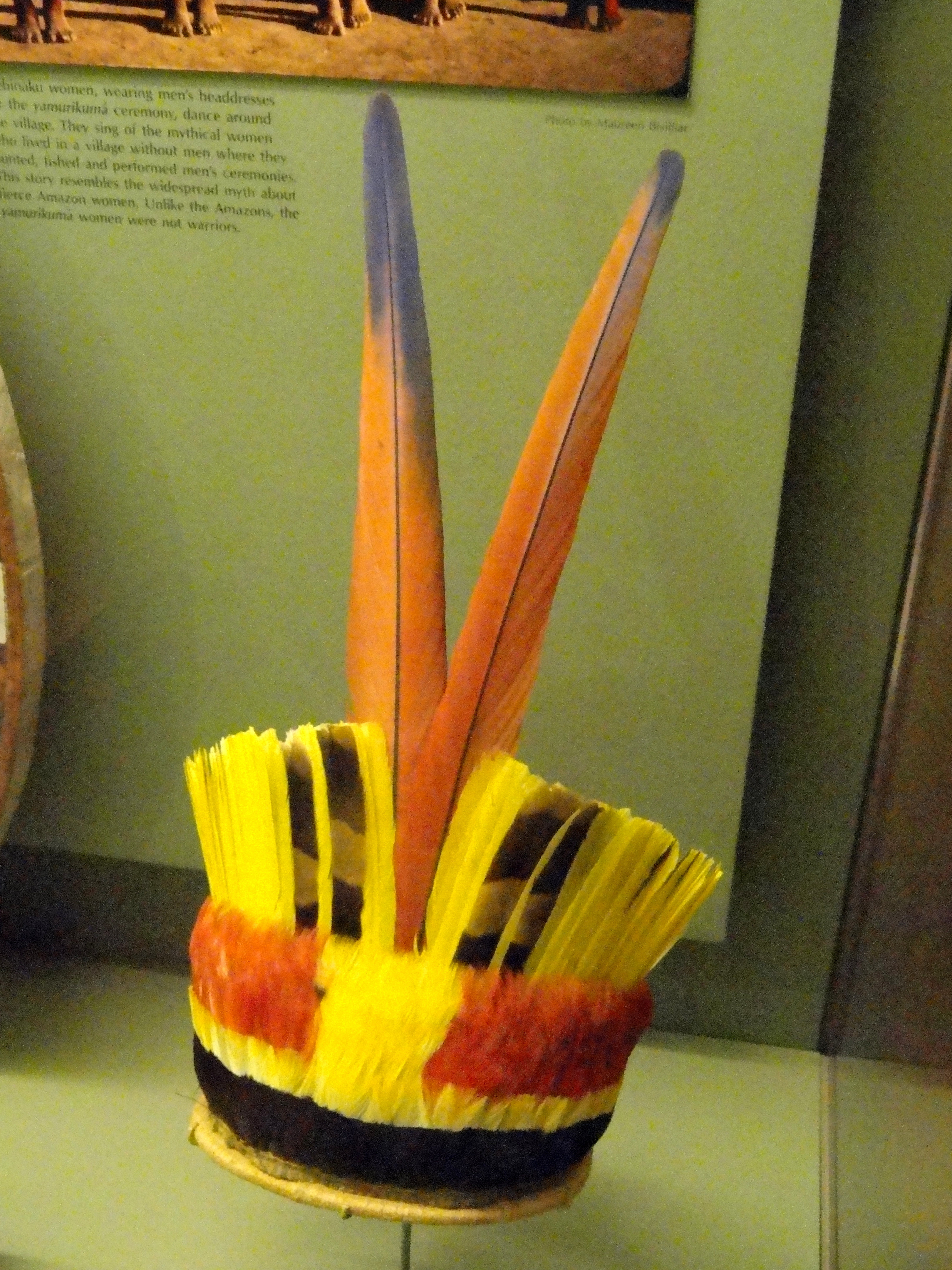 Exhibit in the South American collection of the American Museum of Natural History, Manhattan, New York City, New York, USA.